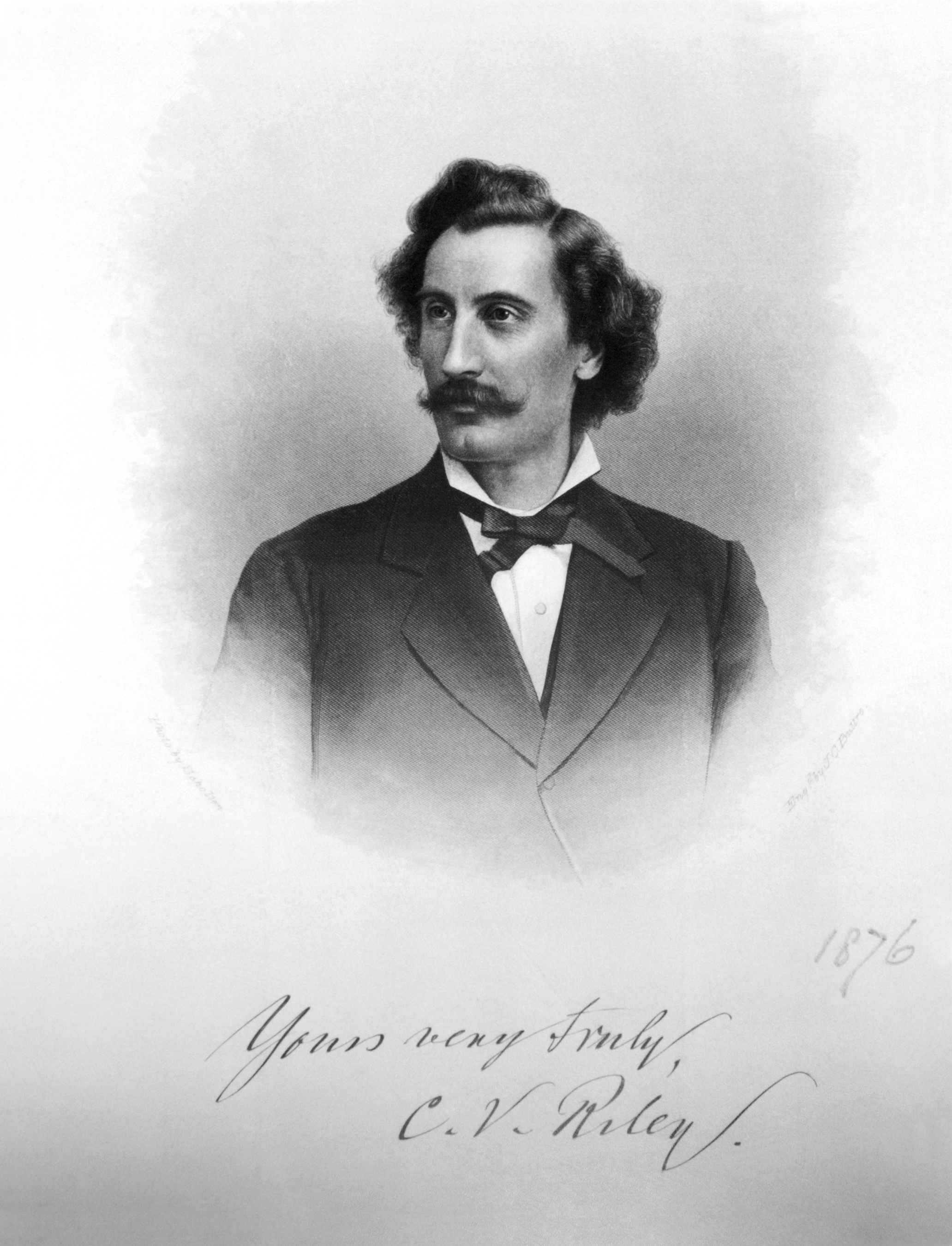 Drawing of Charles Valentine Riley